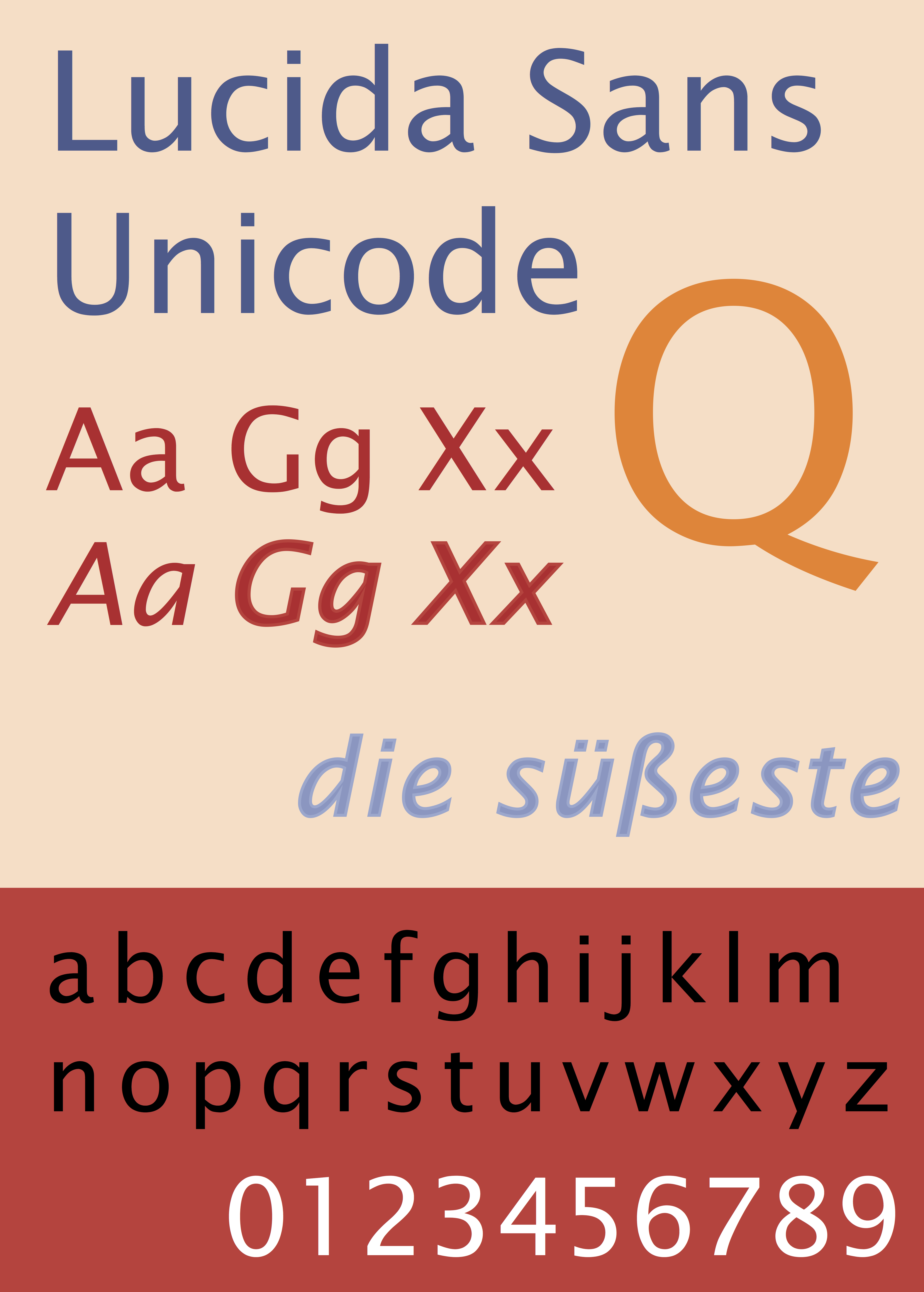 Sample image for the font Lucida Sans Unicode.